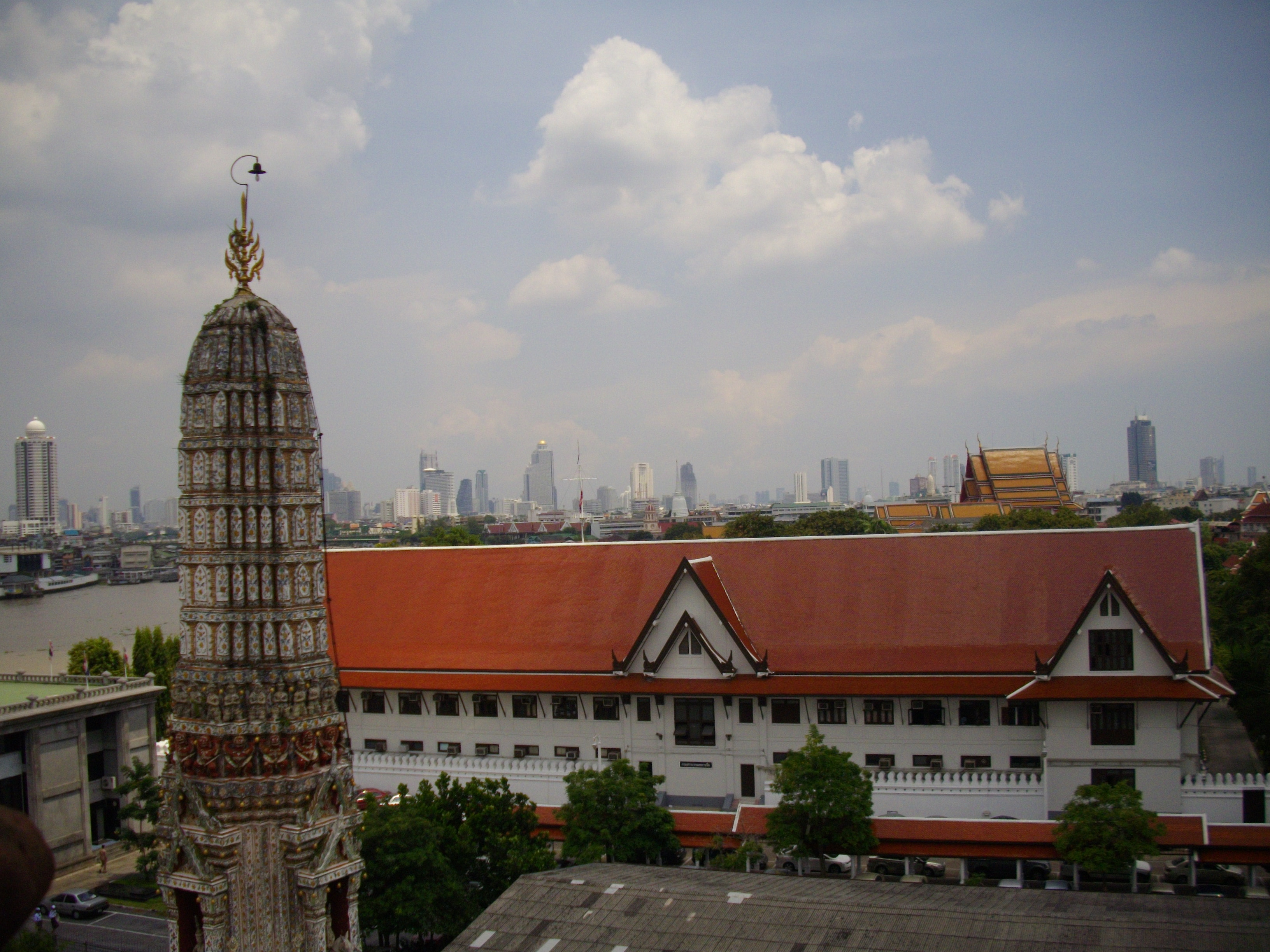 Wang Derm Palace, now used as the Royal Thai Navy's HQ, view form Phra Prang of Wat Arun, Thonburi, Bangkok Thailand.